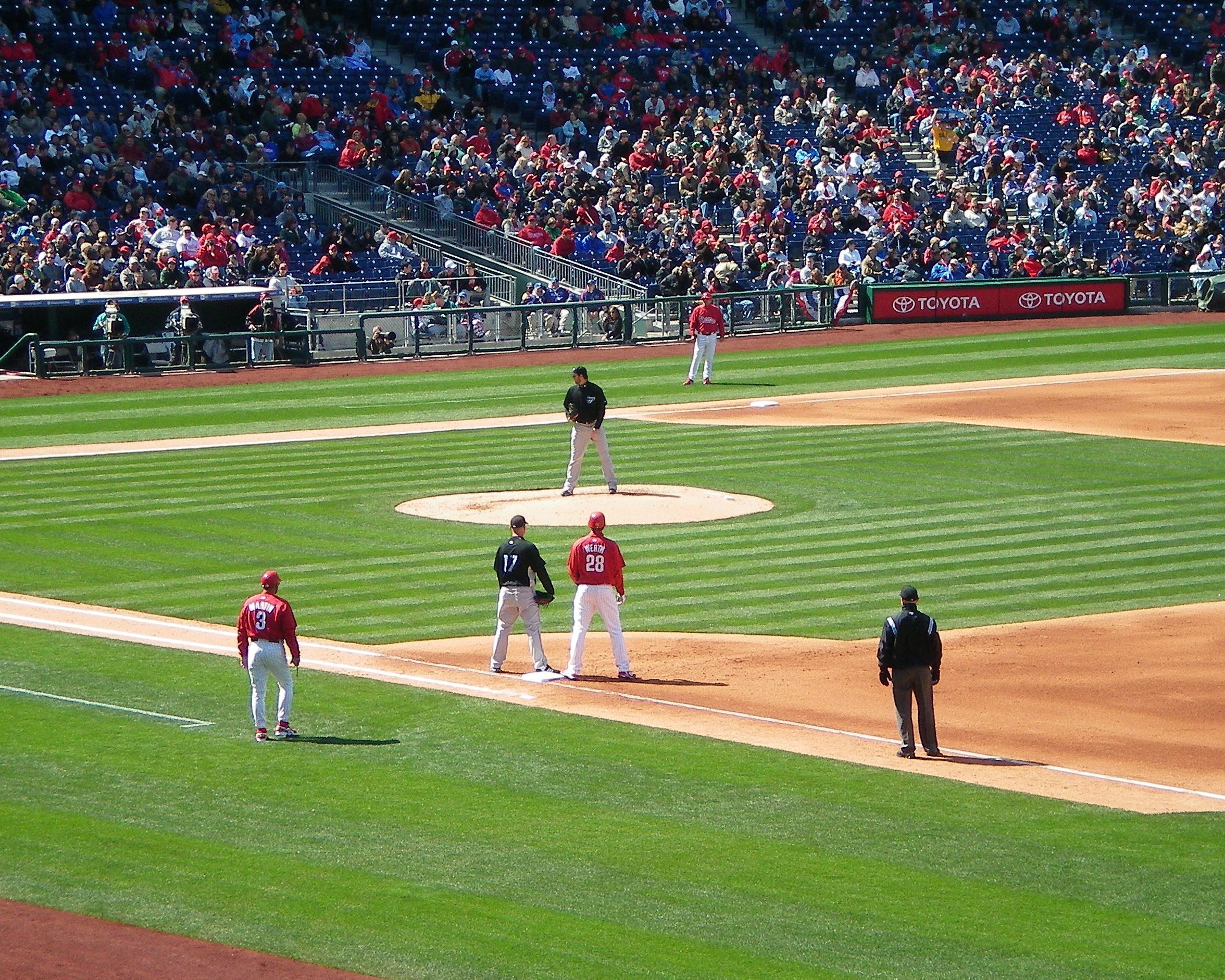 Runner on first at Citizens Bank Park